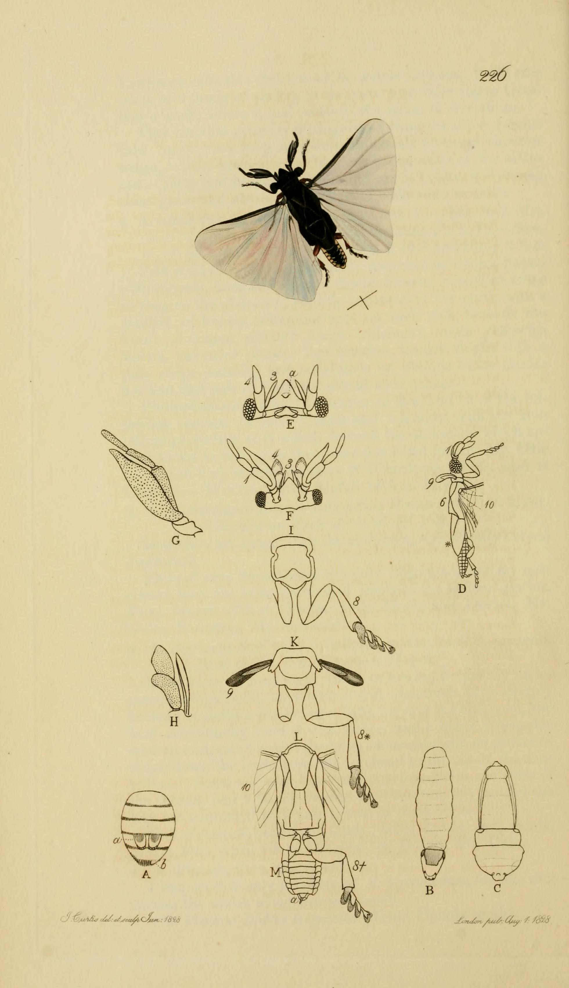 Stylops dalii